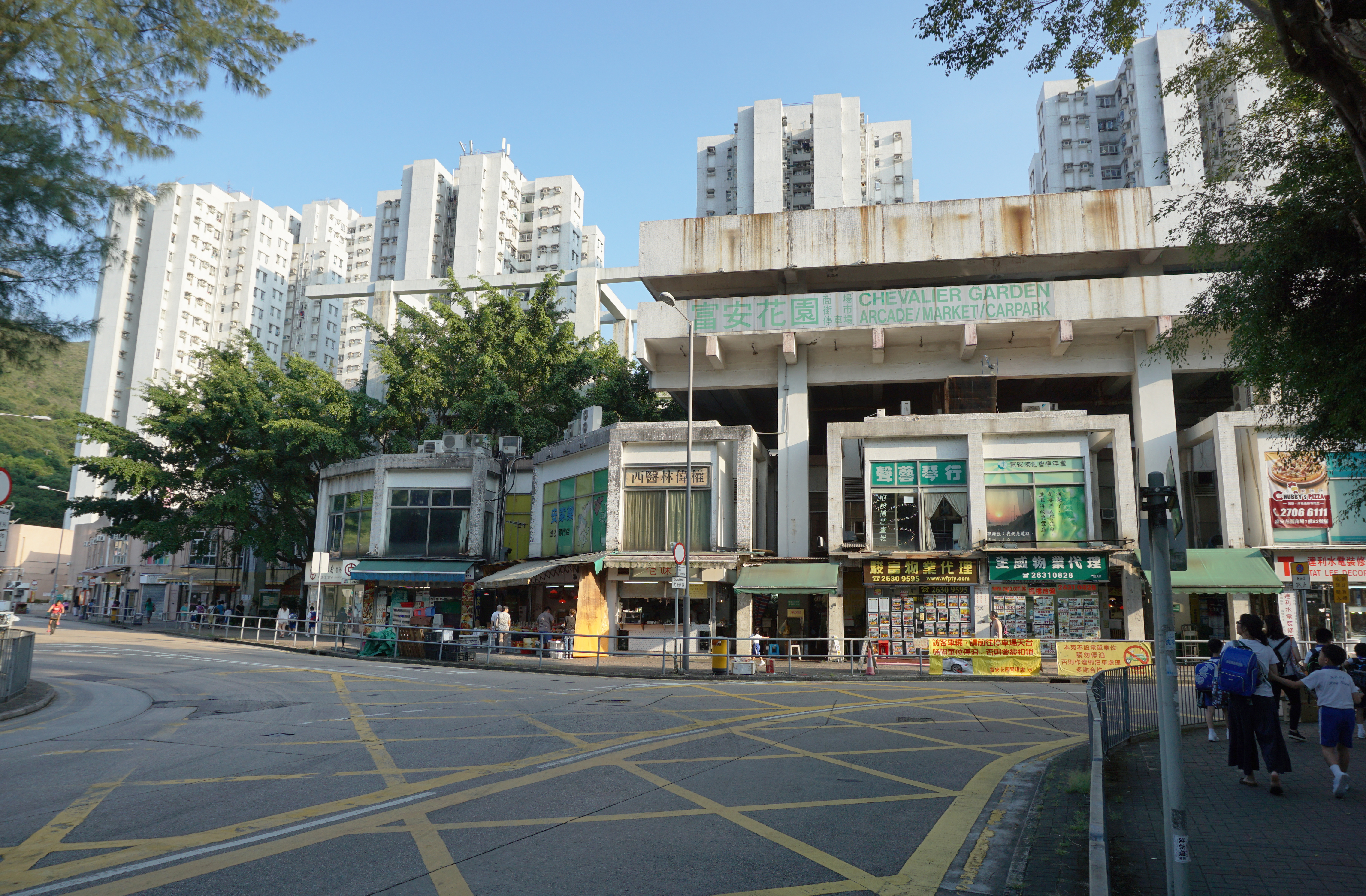 Chevalier Garden Arcade in Tai Shui Hang, Hong Kong.